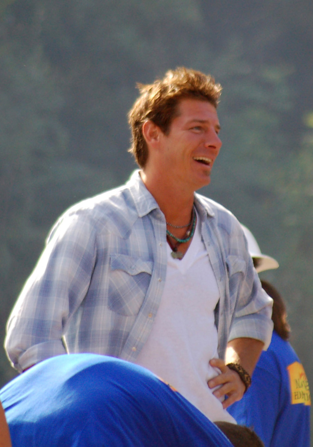 Ty Pennington during the filming of the "Rogers Family" episode in North Pole, Alaska. Approximately 180 military members from Elmendorf and Eielson Air Force Bases, and Forts Richardson and Wainwright helped build a house for a woman and her 12 family members.